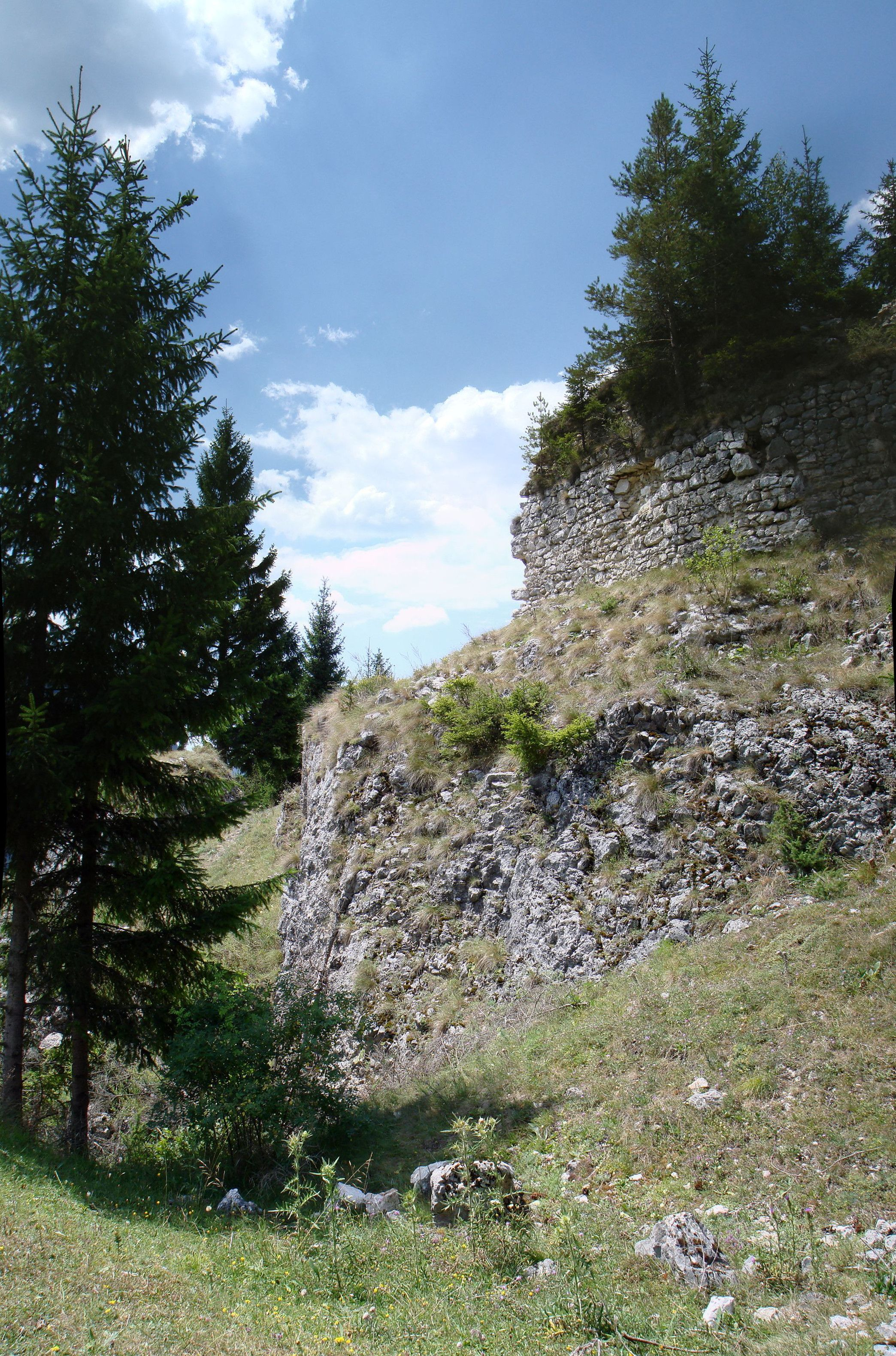 Oratea Fortress